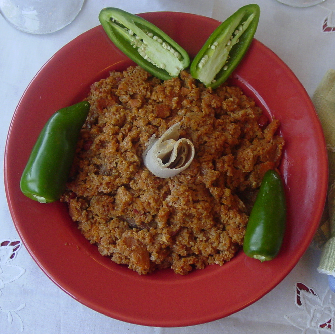 Taita fit-fit is a traditional Eritrean food, here served with jalapeño peppers.